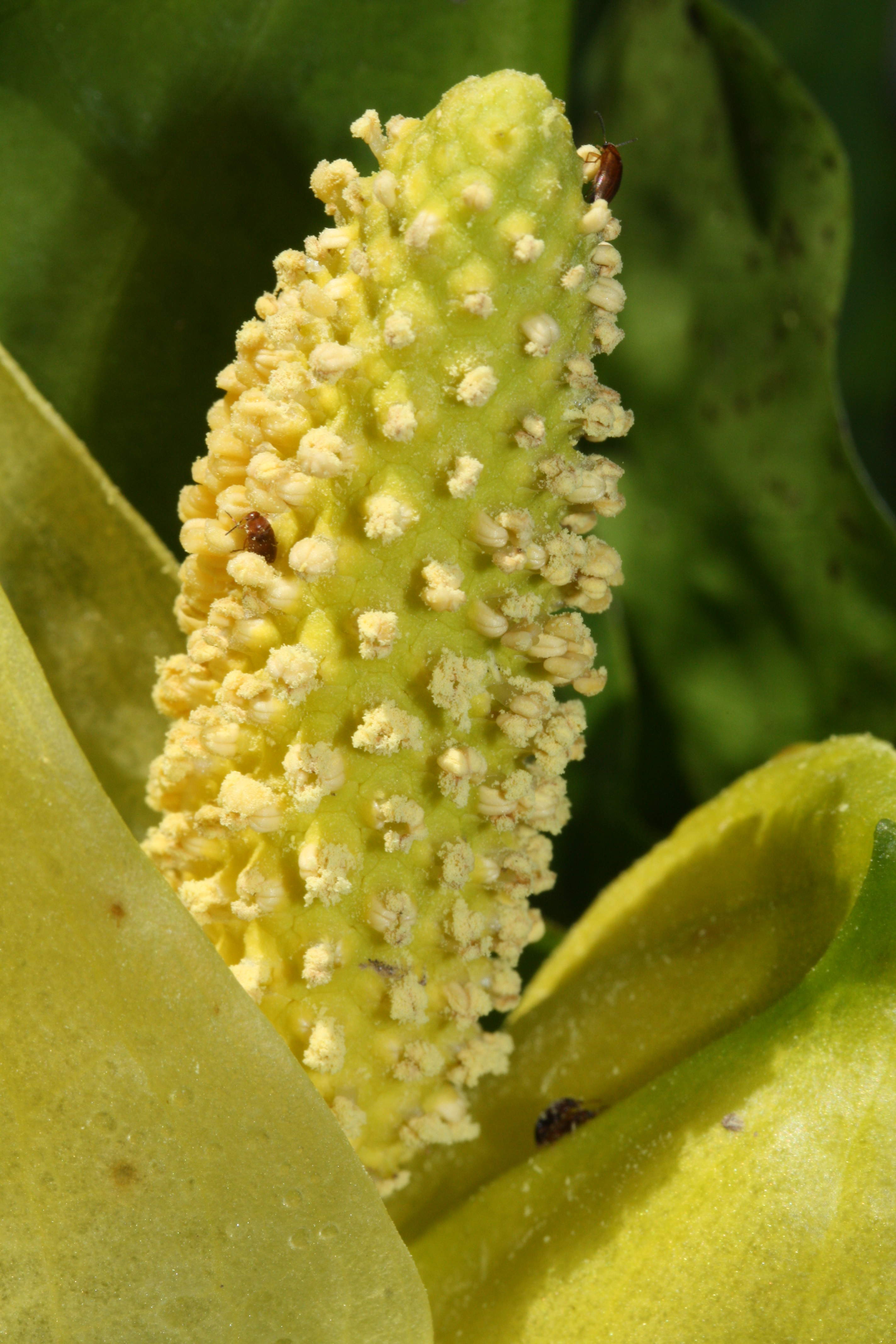 American Skunk Cabbage, Yellow Skunk Cabbage